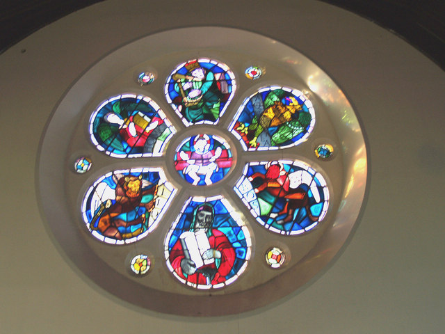 The Rose window, R. C. Ardara. The Rose Window is by the world famous artist Evie Hone. The centre circular panel represents the infant Jesus. The other panels arranged around it are, the top panel , King David, the bottom panel, Moses, the four remaining are the Evangelists, Matthew the Man, Mark the Lion, Luke the Ox and John the Eagle. Evie Hone died in 1955.